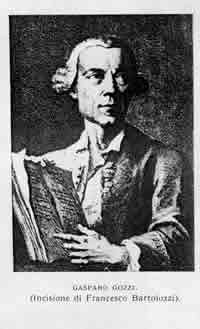 Gasparo Gozzi (1713–1786)